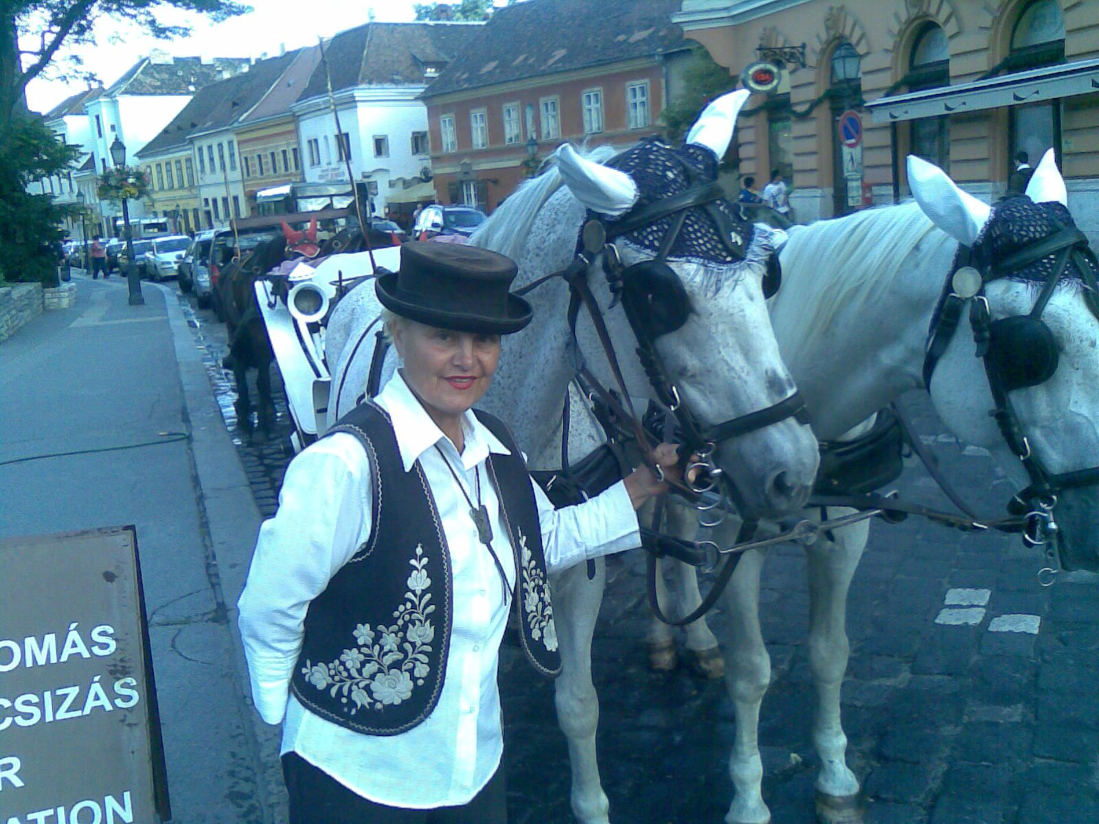 Four-wheelers in the Buda Castle